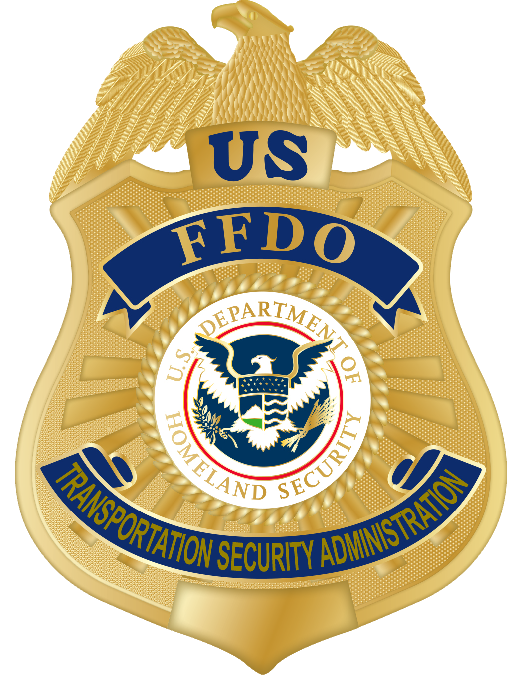 Illustration of a badge of a Federal Flight Deck Officer, who are volunteer airline pilots sworn and deputized as federal law enforcement officers to protect the flight deck of an aircraft.